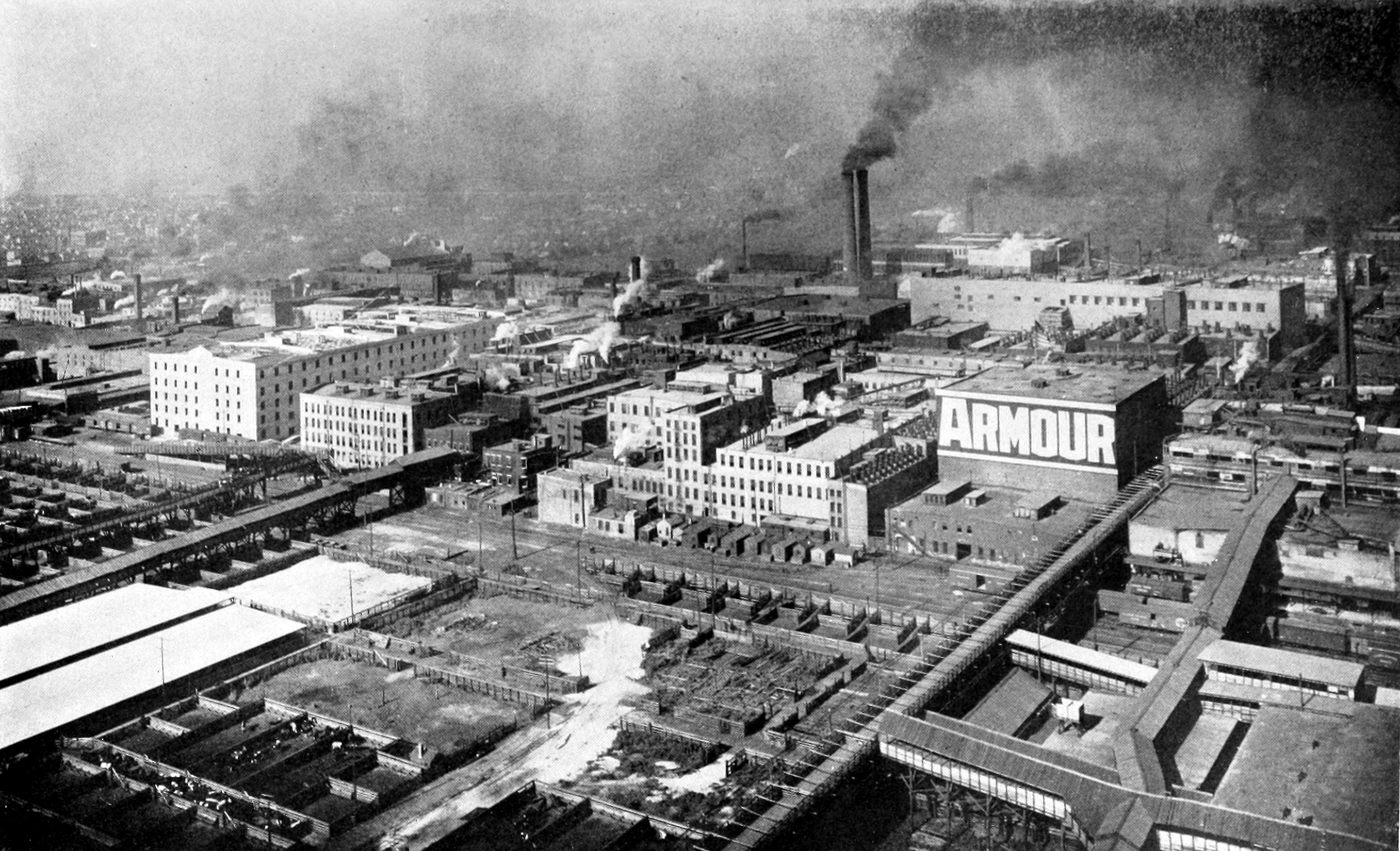 Bird's Eye view of Armour & Company from balloon